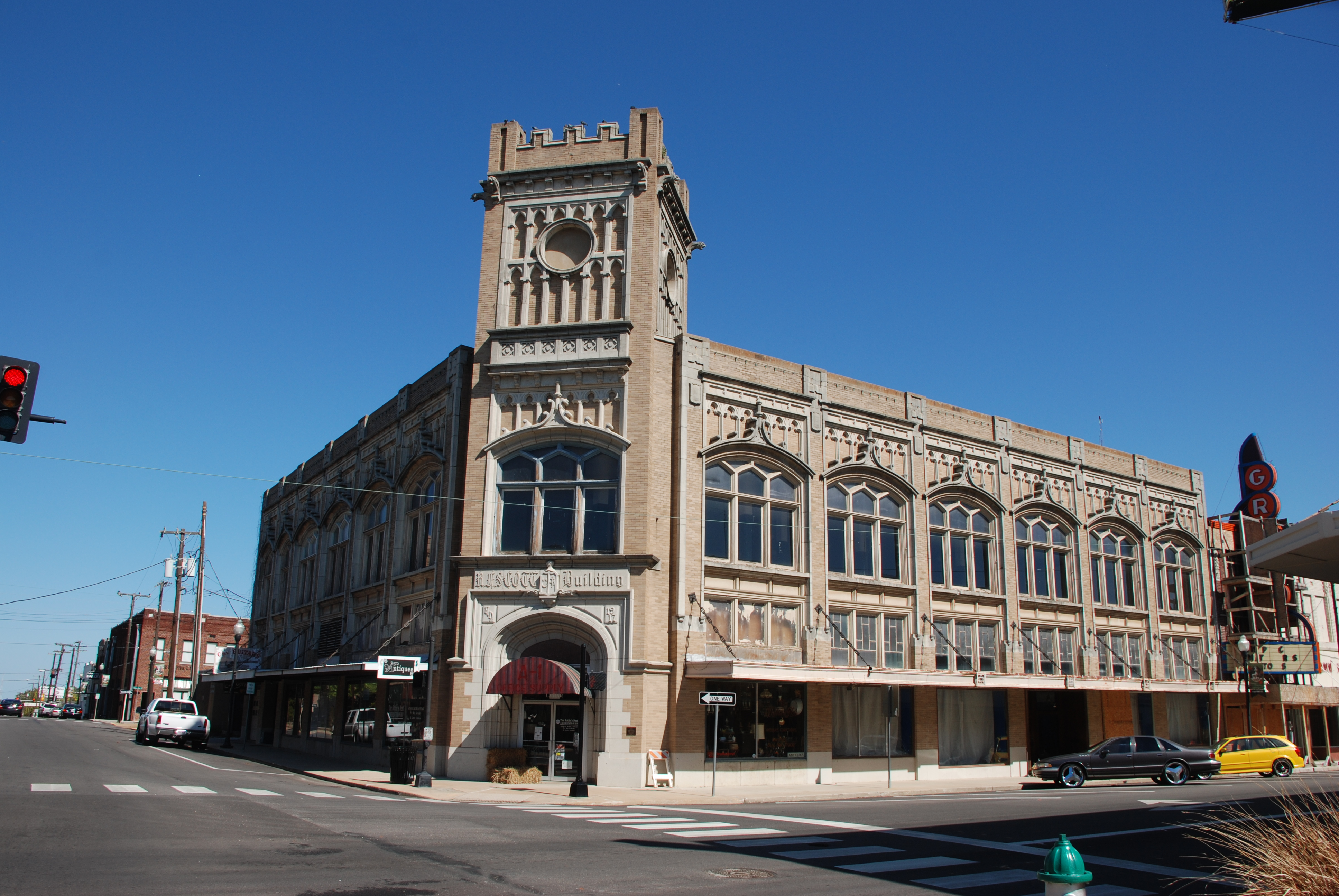 R.F. Scott Building, Paris (Texas, USA)